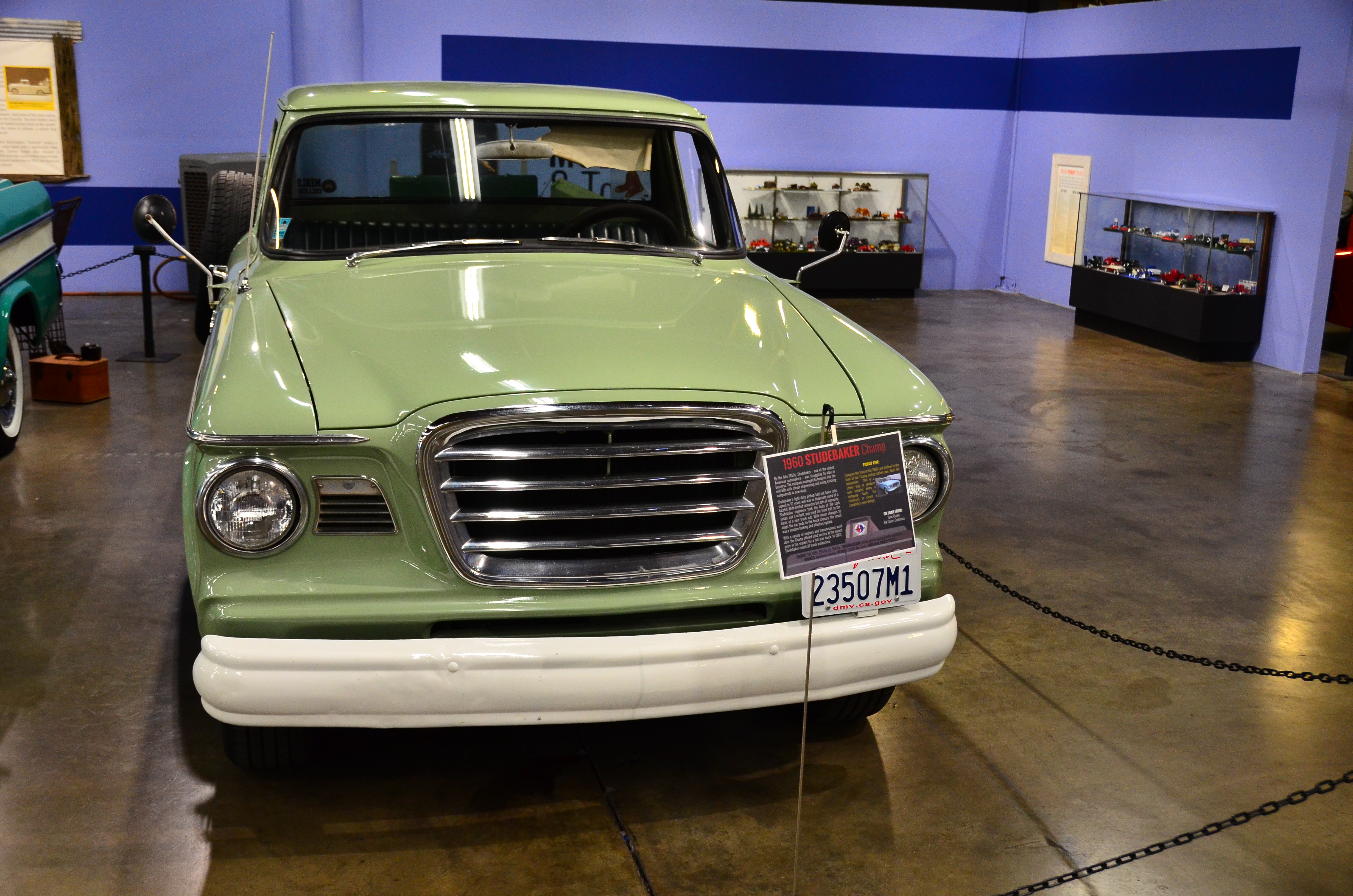 1960 Studebaker Champ